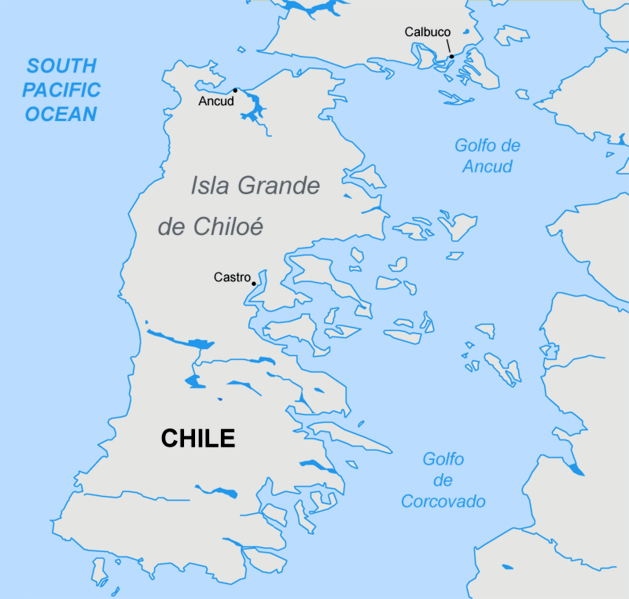 Map of Chiloe Island, Chile (CIA World Factbook)